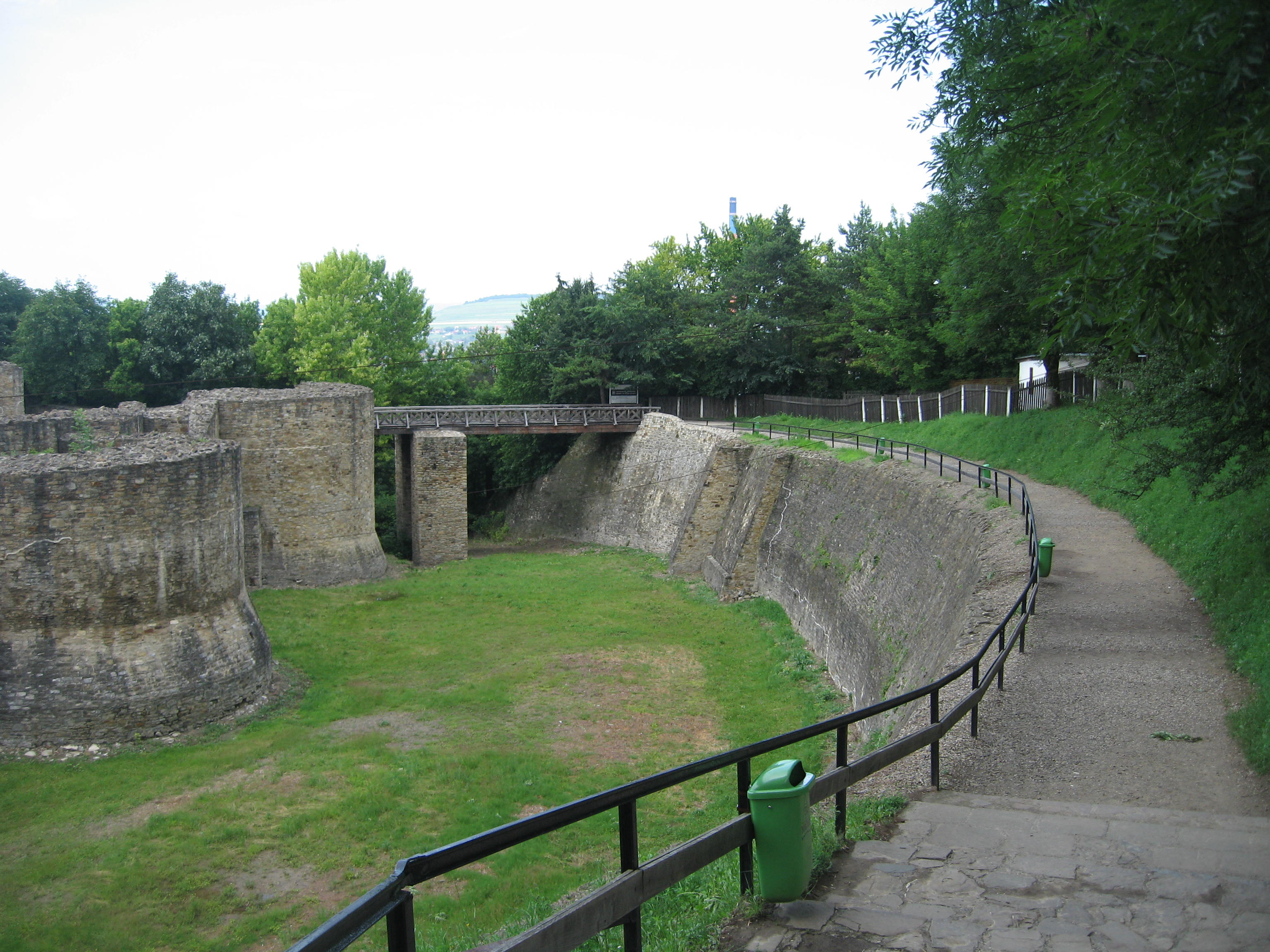 Seat Fortress of Suceava – the access bridge, scarp wall and defense ditch.